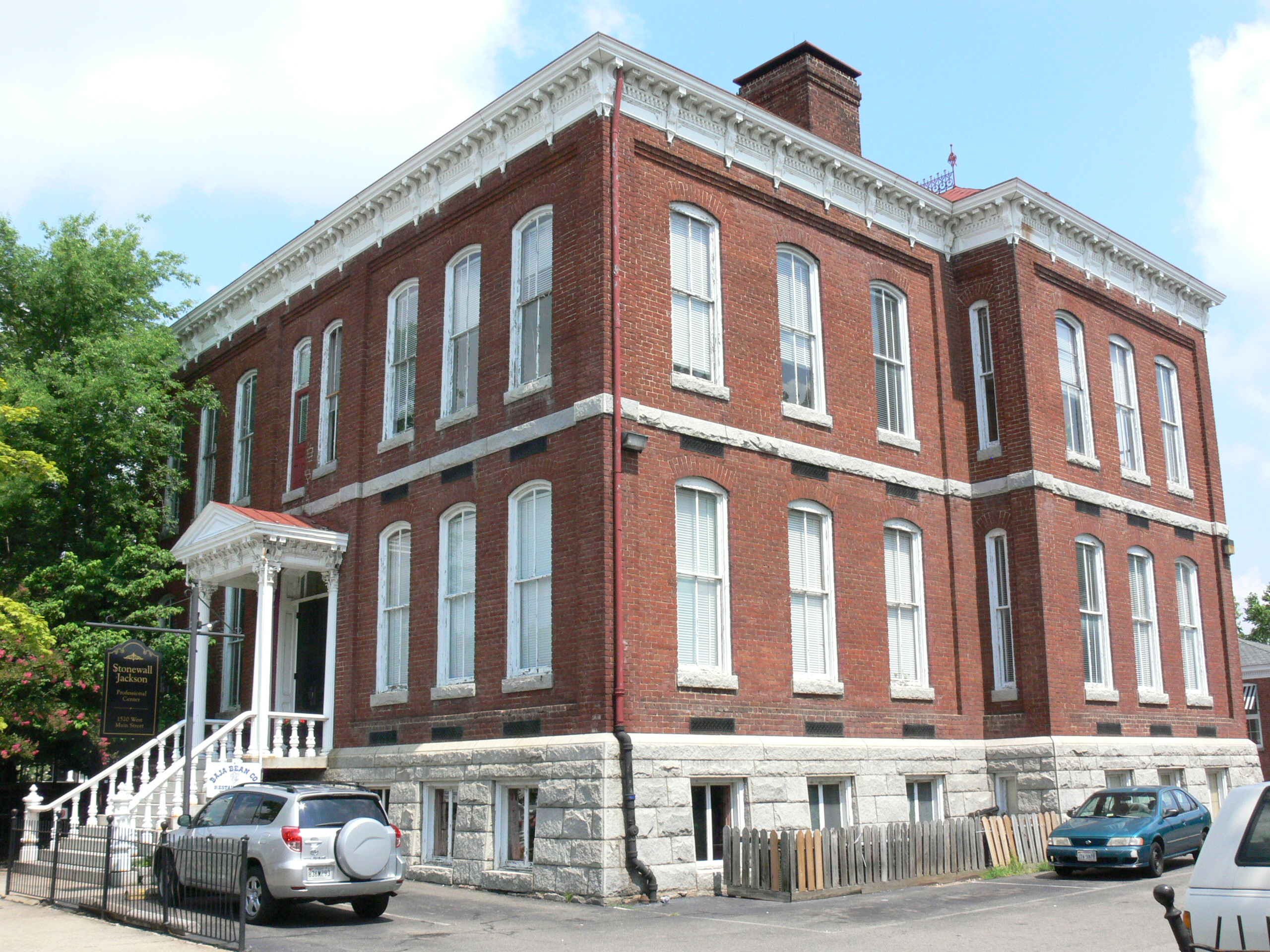 The former Stonewall Jackson School on Main Street in Richmond, Virginia; on the National Register of Historic Places